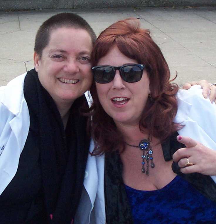 Beth Stephens (left) and Annie Sprinkle (right) at an event at the UIUC campus, Chicago, IL, 5 October 2006